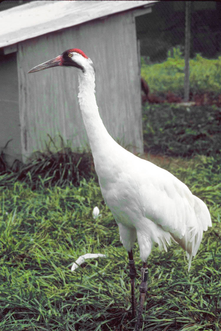 A captive Whooping Crane